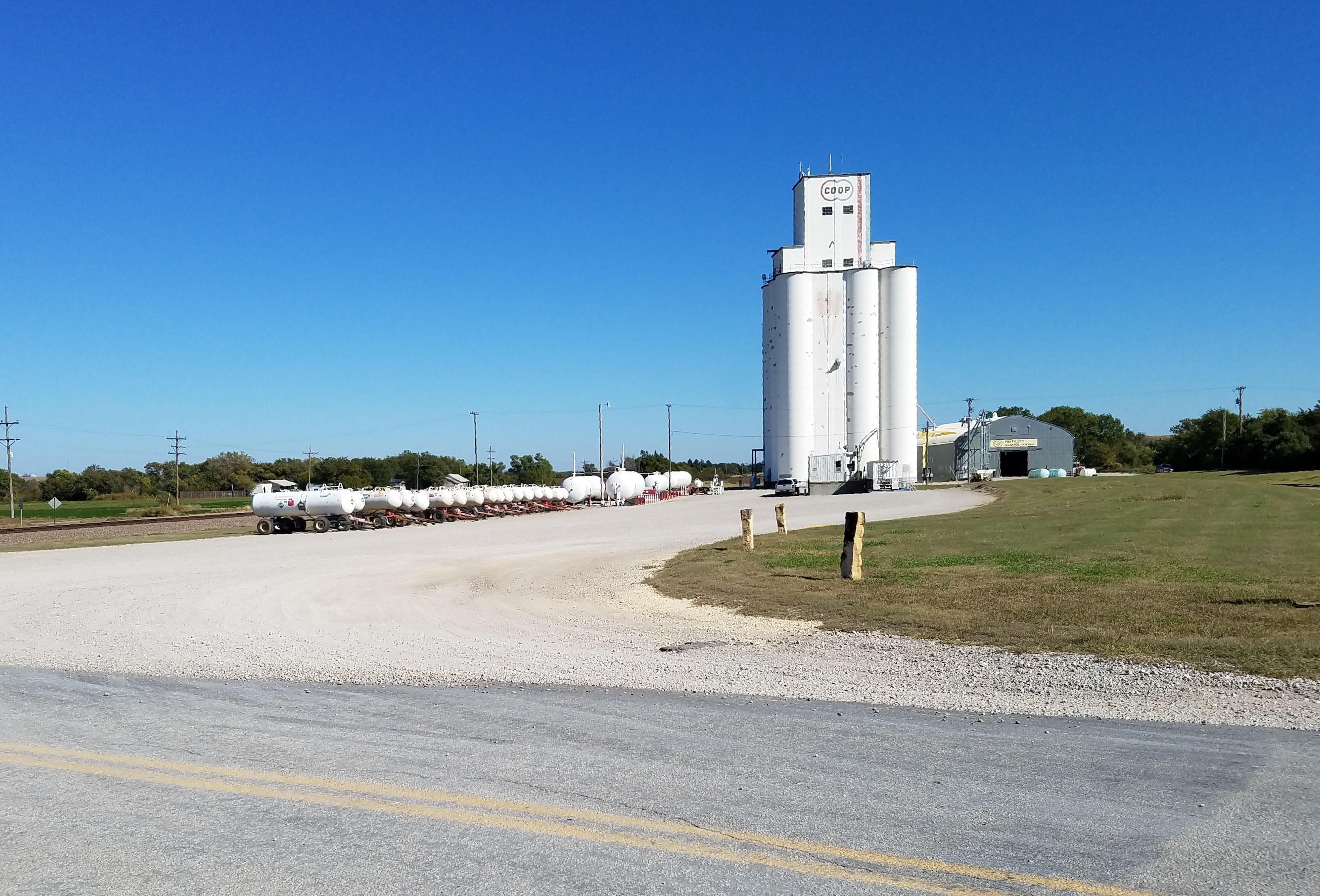 Yocemento Coop - elevator and bulk fertilizer